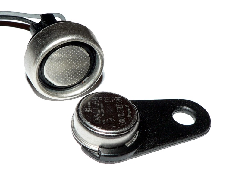 electronics keys iButton (with the 1-Wire interface)